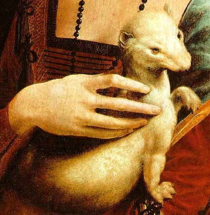 Lady with an Ermine by Leonardo da Vinci, 1483, oil on board, 40 x 55 cm. The Czartoryscy's Collection, National Museum in Kraków, Poland *Lady with an Ermine.jpg